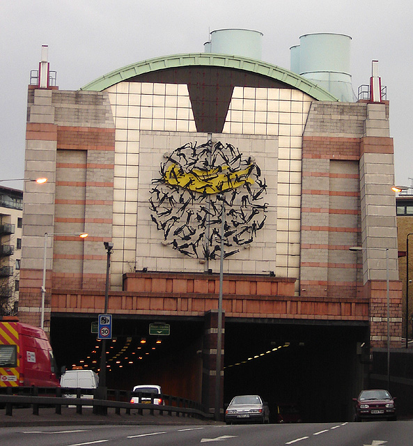 The western portal of the Limehouse Link tunnel, Limehouse, Tower Hamlets, London. 6 January 2006. Photographer: Fin Fahey